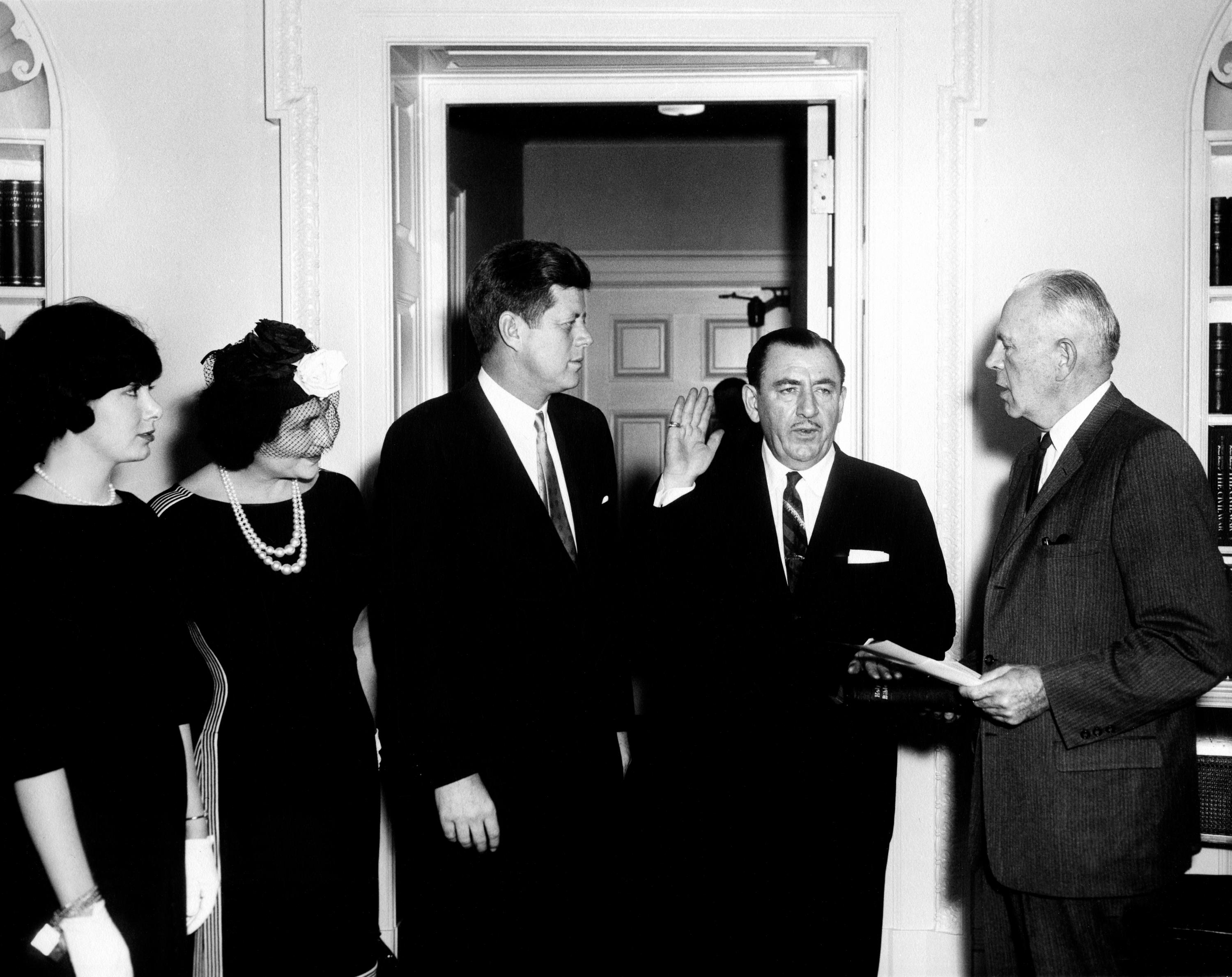 President John F. Kennedy observes as Thomas D’Alesandro, Jr. is sworn in as a member of the Renegotiation Board in the Oval Office, White House, Washington, D.C. (L-R) Nancy D’Alesandro (later Nancy Pelosi); Annunciata “Nancy” Lombardi D’Alesandro; President Kennedy; Thomas D’Alesandro; White House Administrative Officer Frank K. Sanderson.